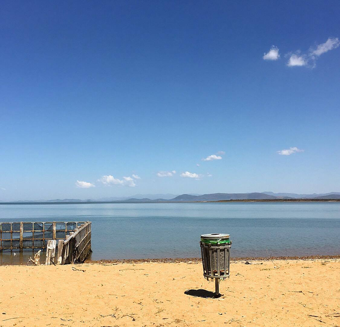 A view of Wilson's Beach east of Proserpine